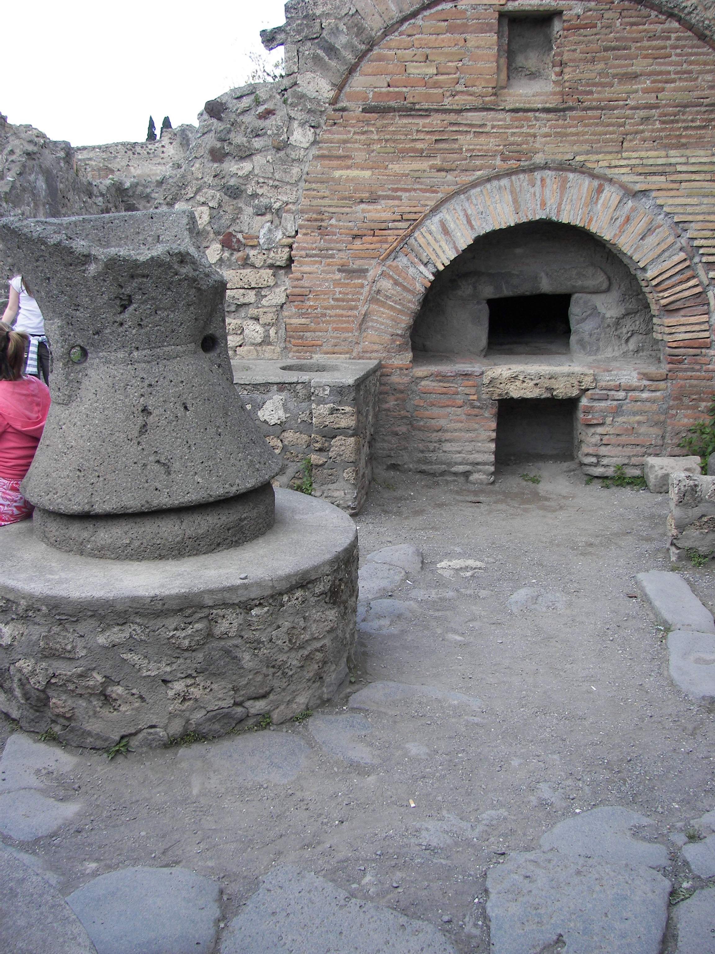 Oven in a bakery in Pompeii. Bakery is at VI.6.17.